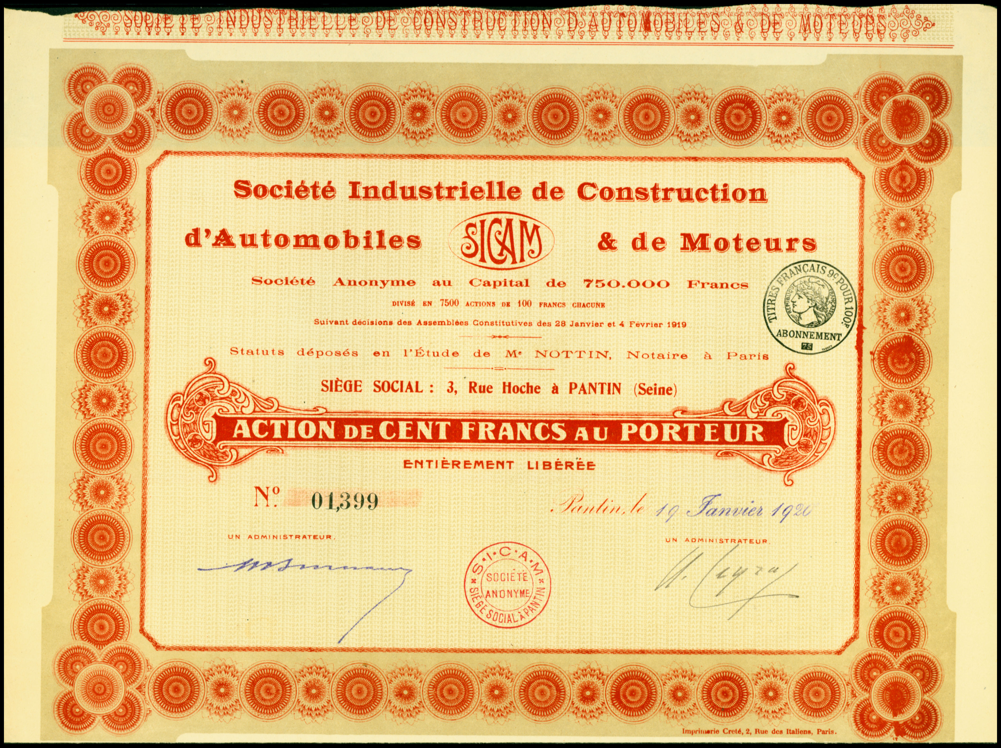 Share of the Société Industrielle de Construction d'Automobiles et de Moteurs, issued 19. January 1920